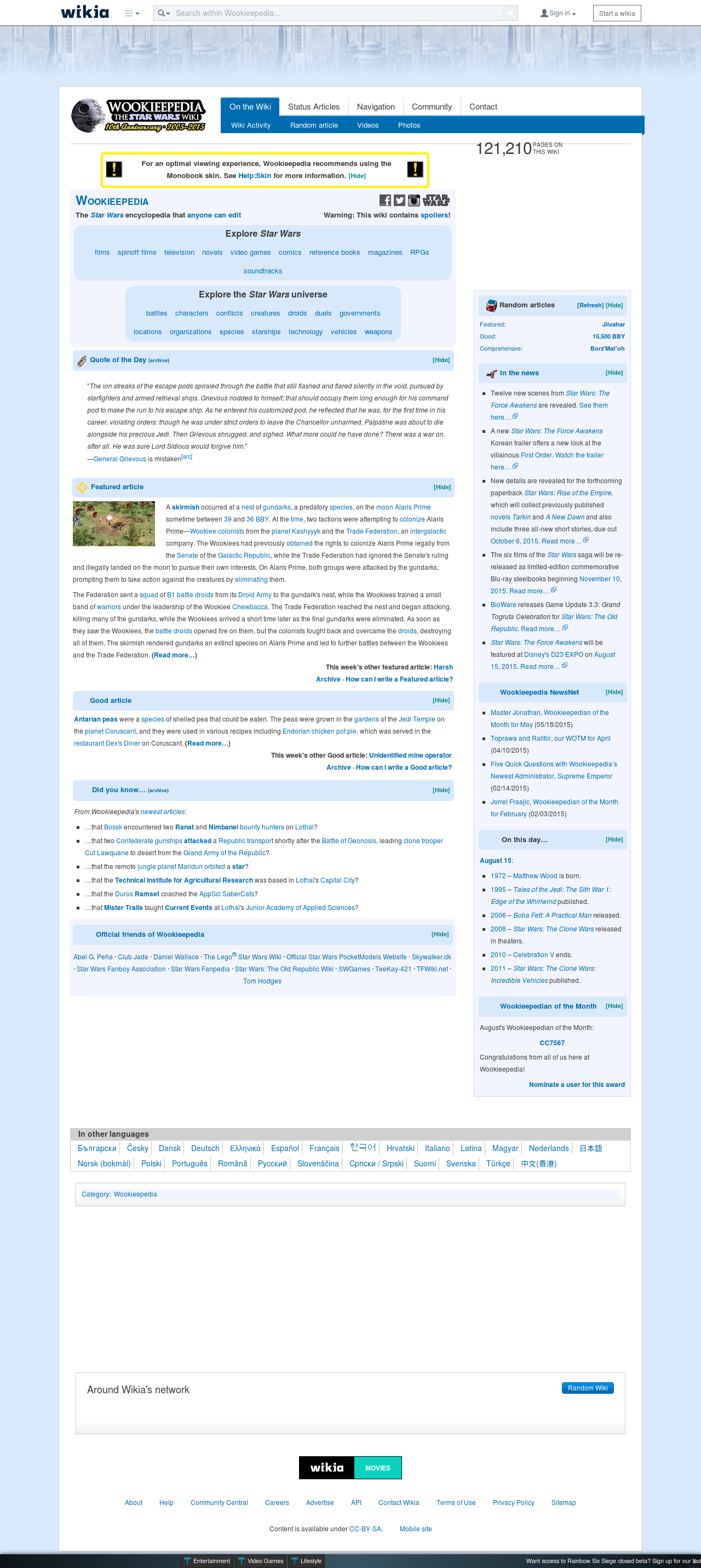 The home page of the English version of Wookieepedia.